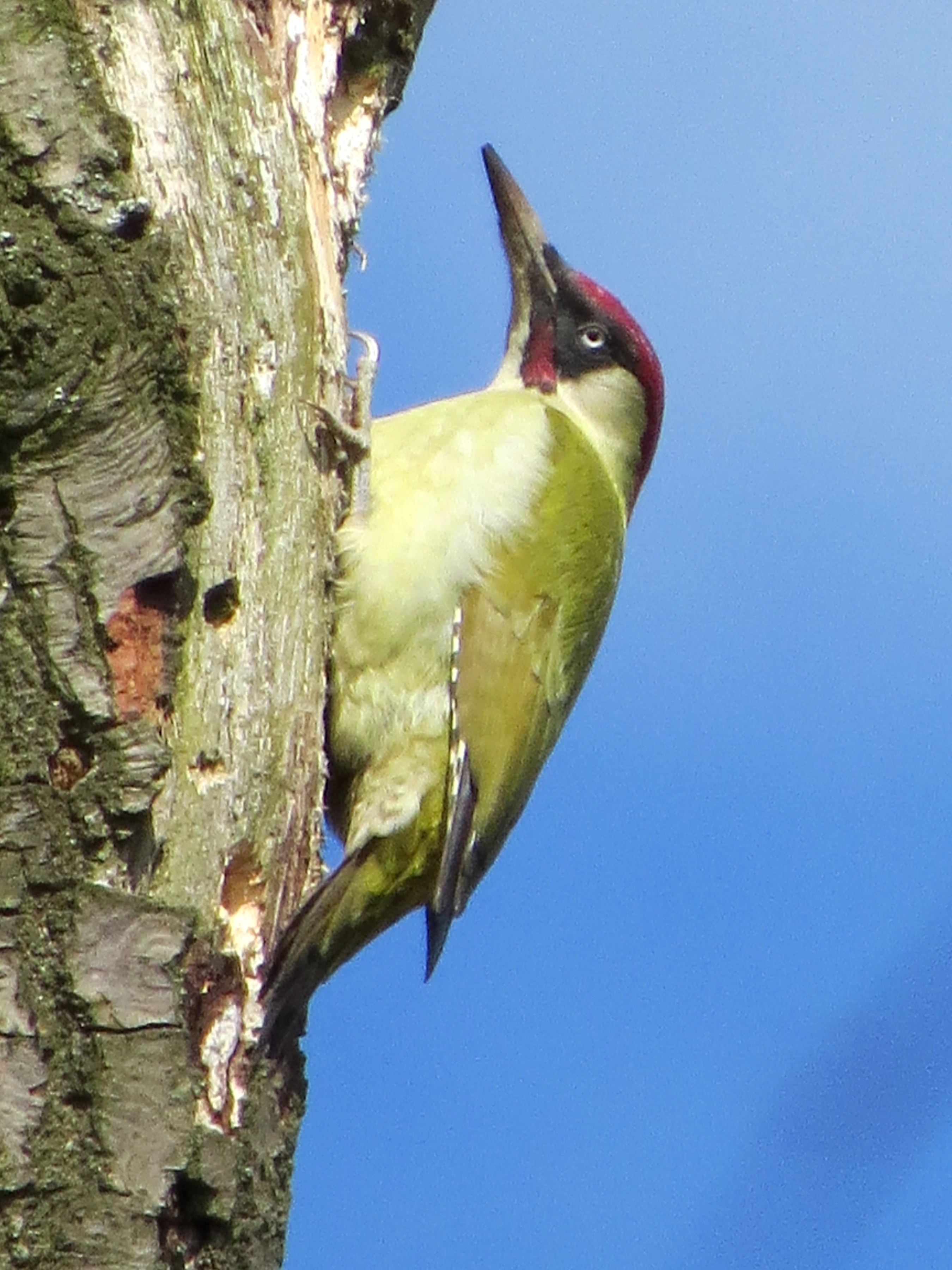 Green Woodpecker Picus viridis ♂, Gosforth Park, Northumberland